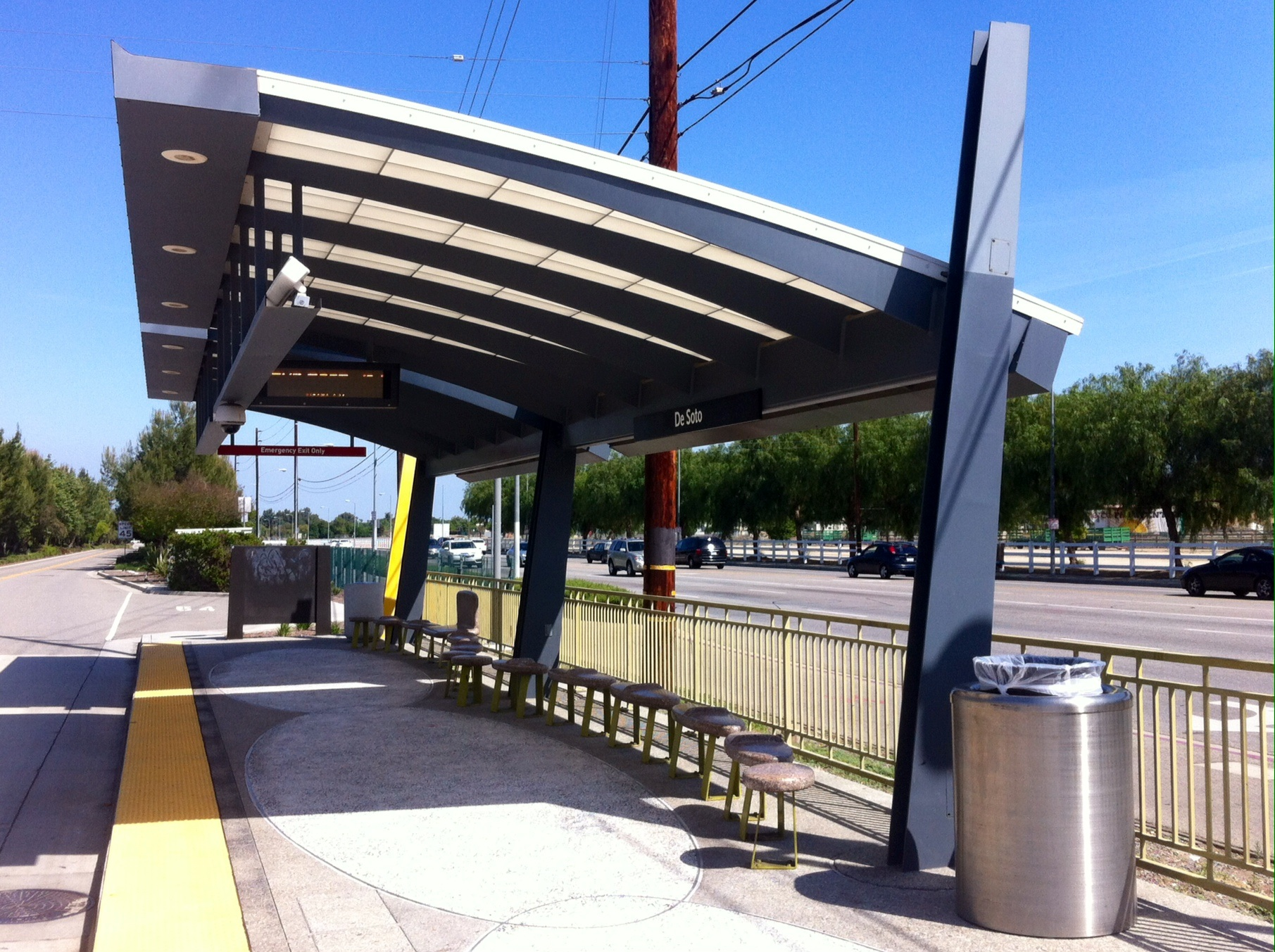 The platform view of De Soto Station.